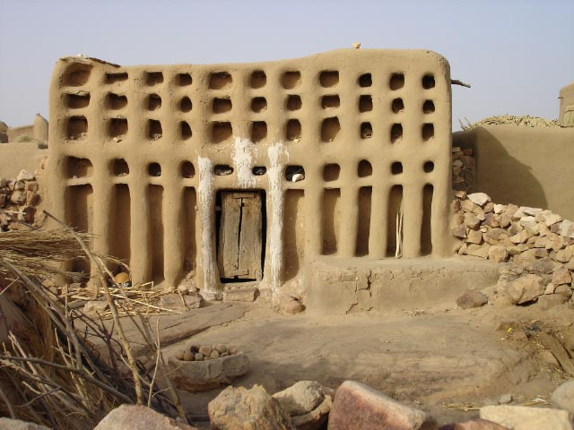 House of the Hogon, the spiritual leader of dogon people, Mali, December 2006.